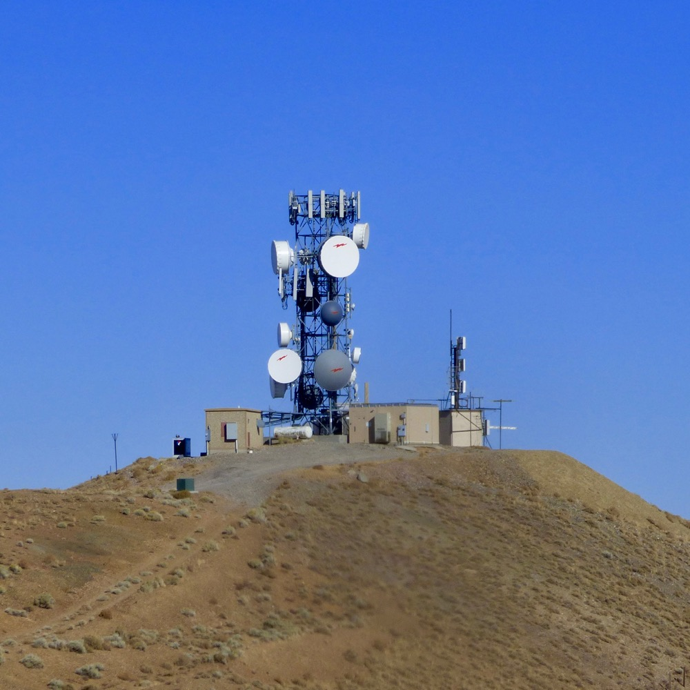 Winnemucca AFS Radio Site Repurposed, photo by John Stanton 9 Oct 2016